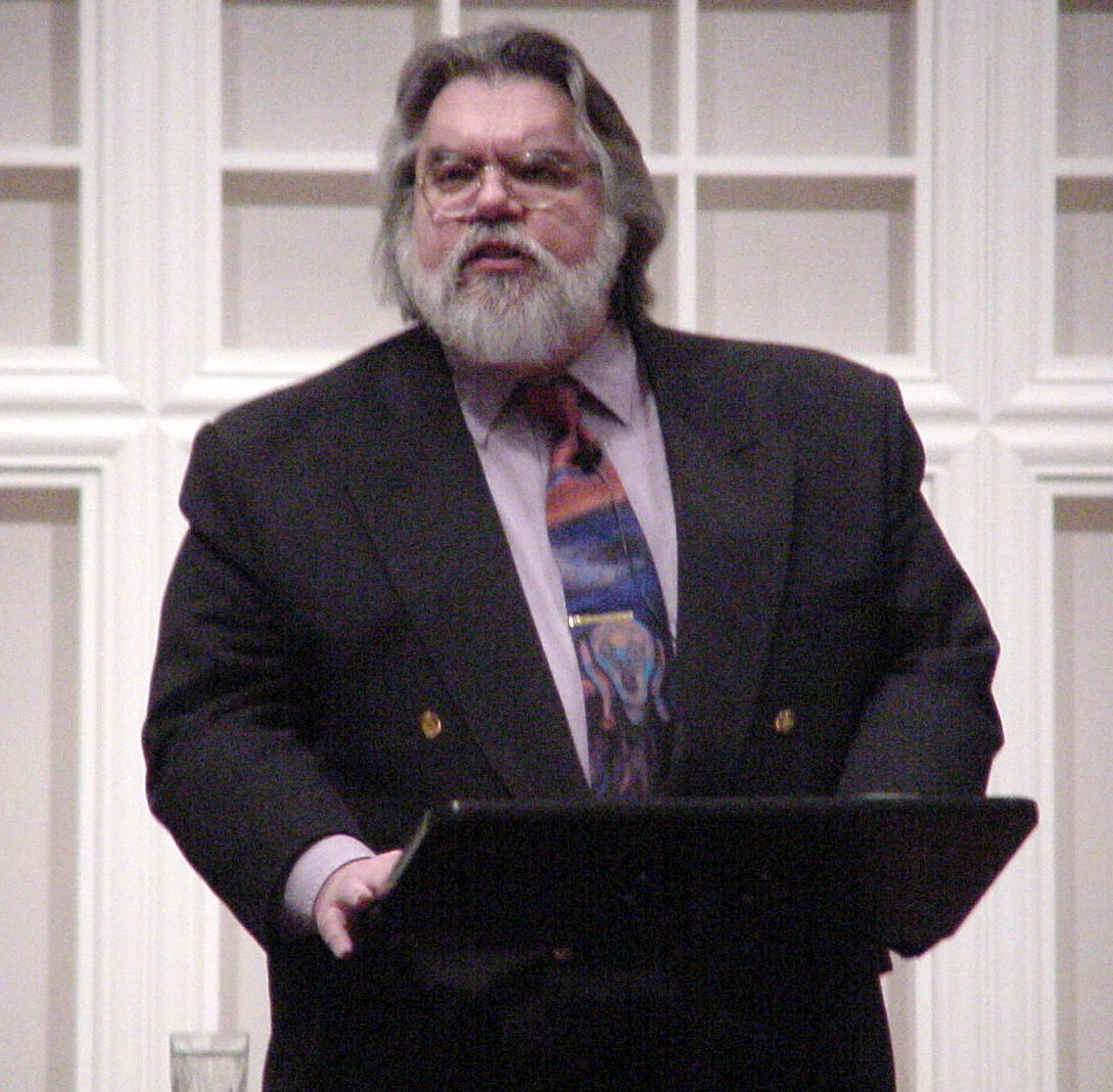 Robert M. Price, American theologian